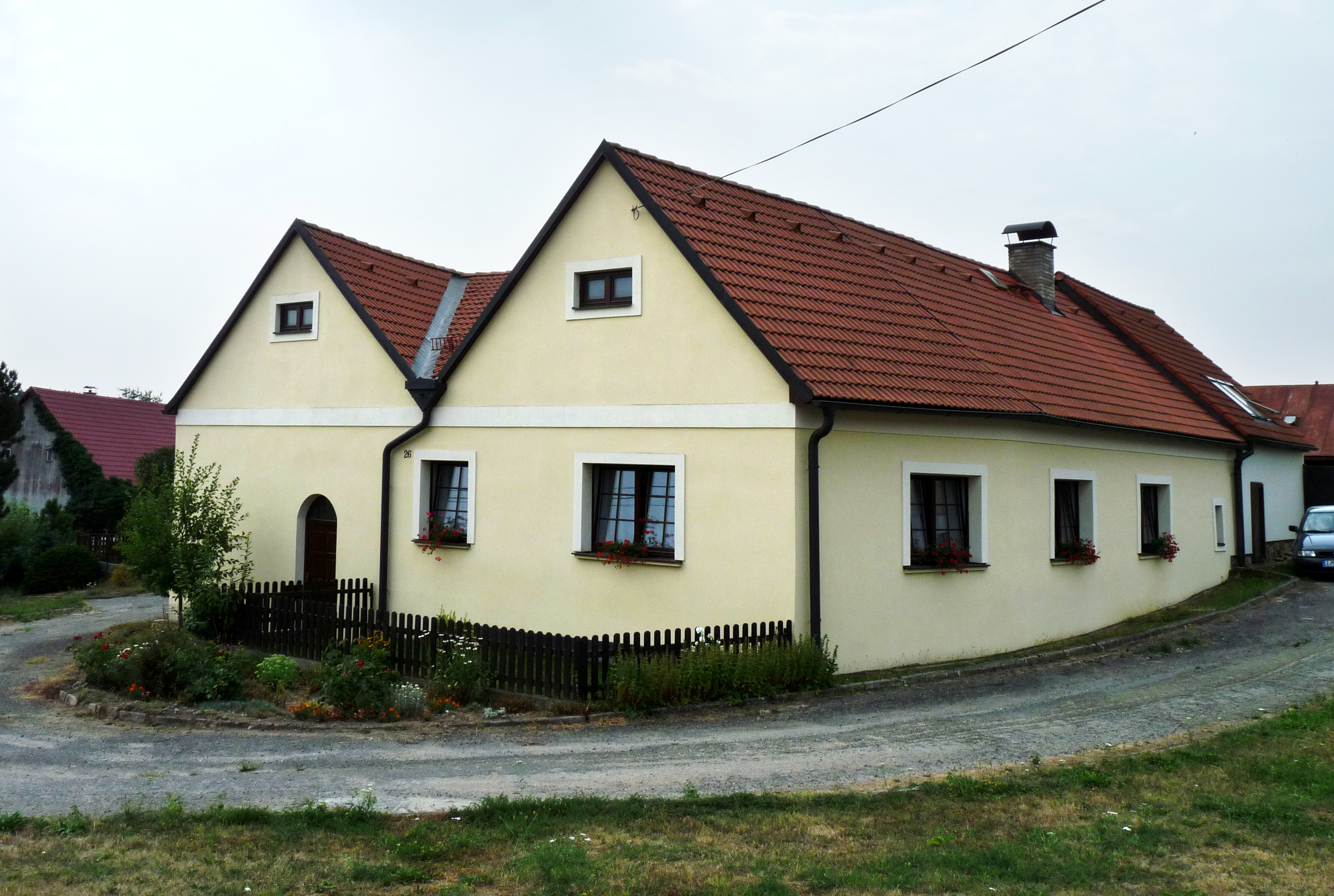 House No 26 in the village of Buková, Jihlava District, Vysočina Region, Czech Republic.